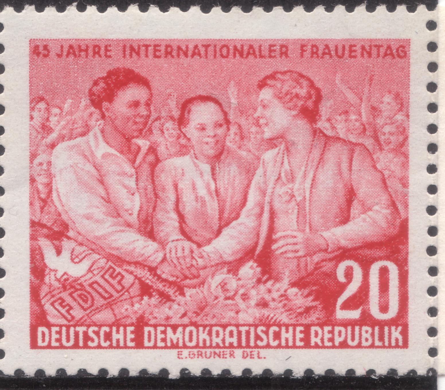 International Women's Day Graphic designer: Gruner Ausgabepreis: 20 First Day of Issue / Erstausgabetag: 1. März 1955 Michel-Katalog-Nr: DDR 451